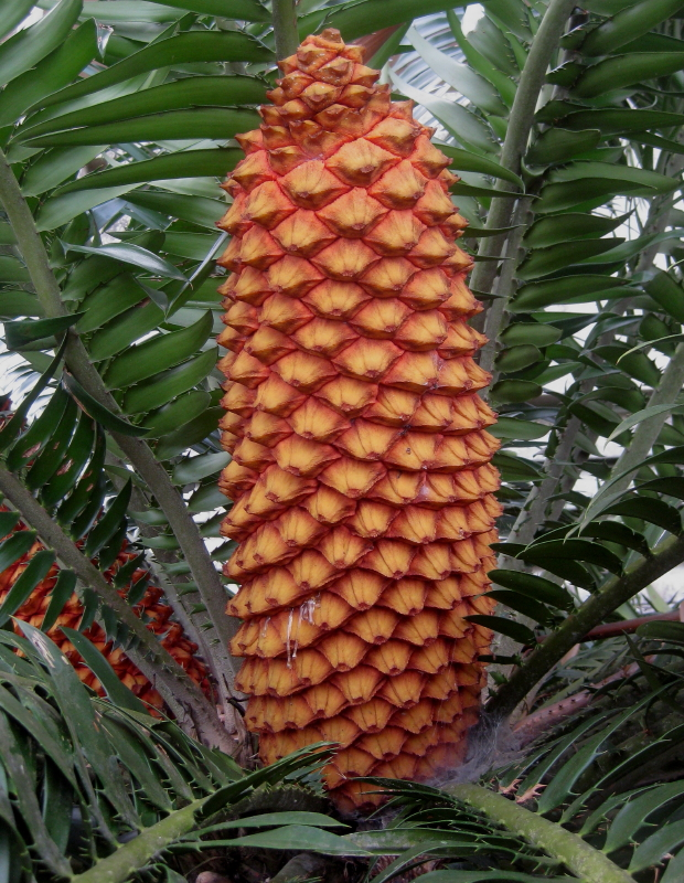 A female cone of cultivated Encephalartos gratus in Luabo, Mozambique. This species grows in the wild alongside the Zambezi River.